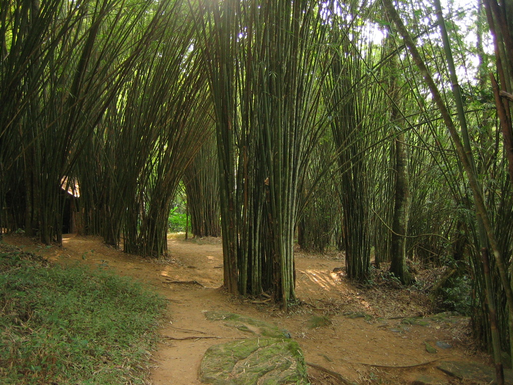 Nam Nao Nationalpark - Bamboogrove, Bambuswald, Foto von Martin Püschel, 28.02.2006